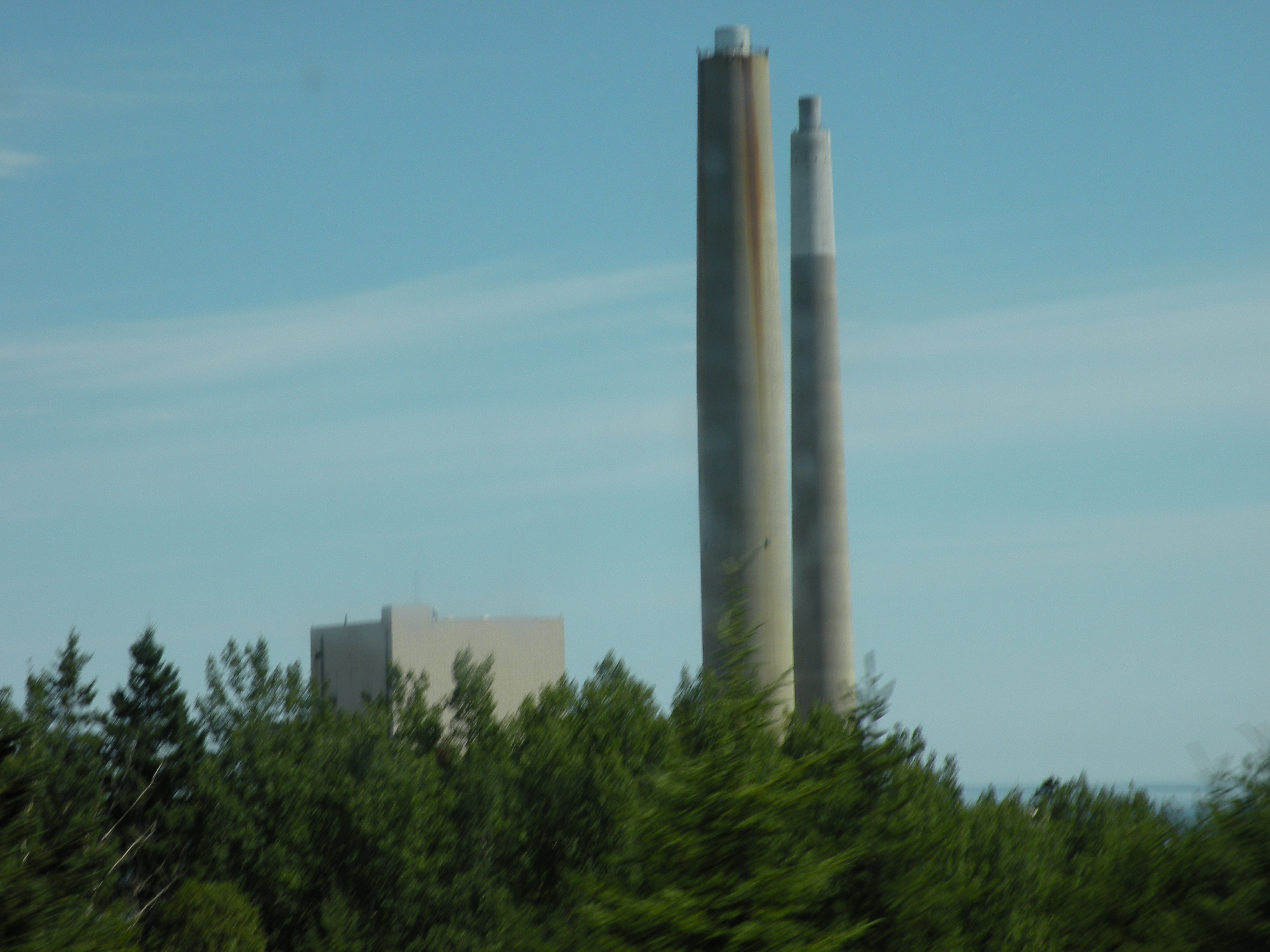 Smoke stacks of the thermal power plant in Dalhousie, New Brunswick, Canada.